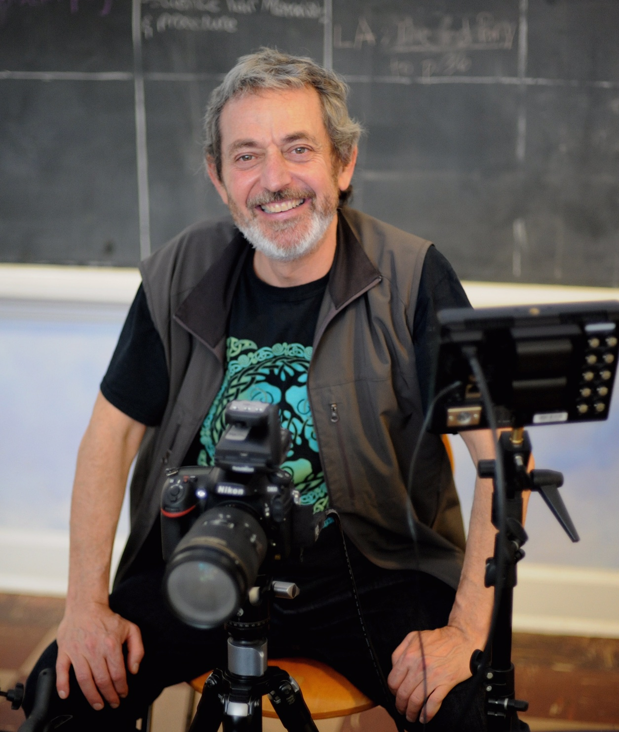 Gary Yost Teaching in 2014